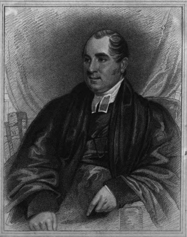 Portrait of William Bengo' Collyer (1782–1854), English Congregational minister.